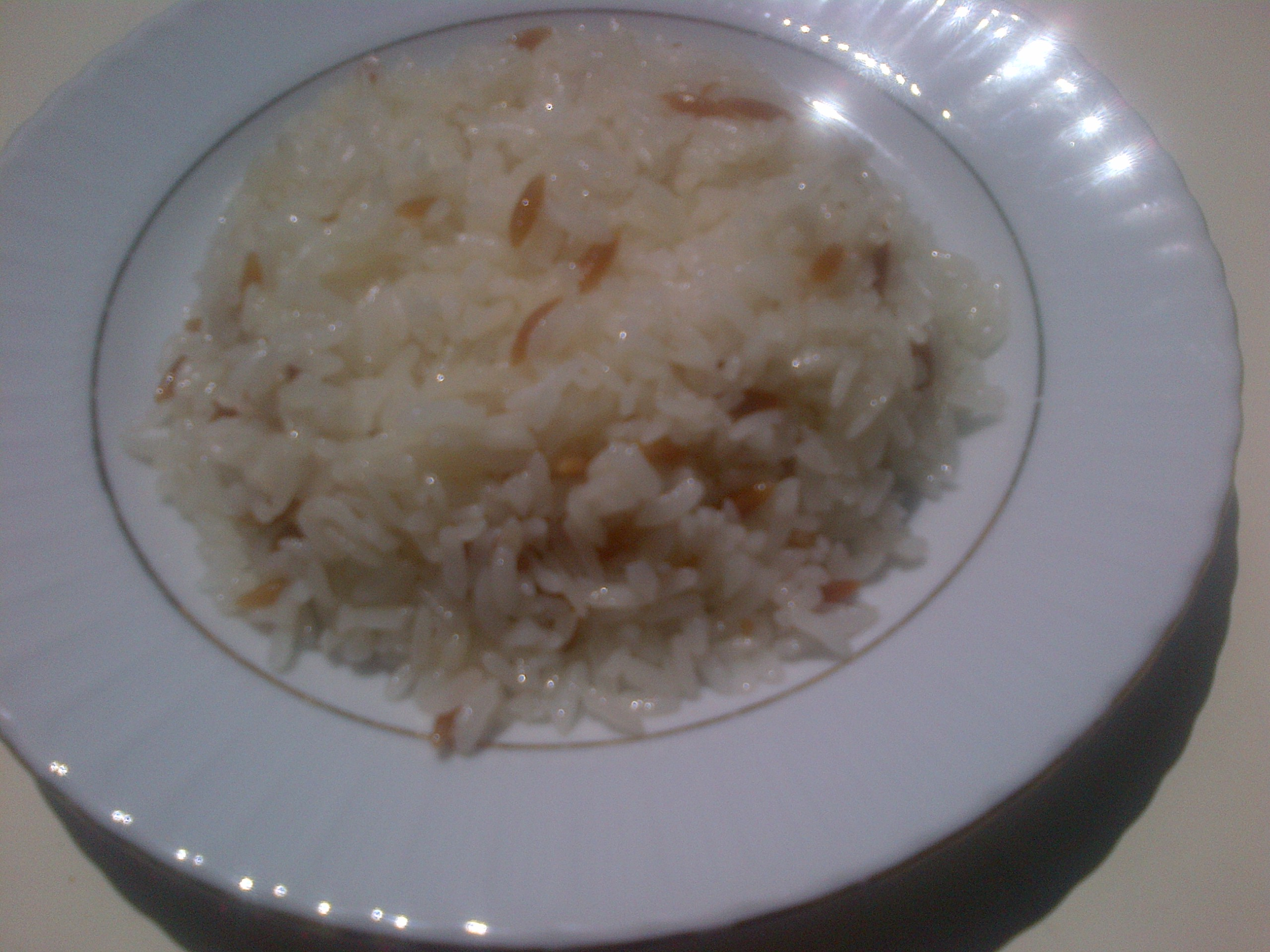 "Şehriyeli pilav" or pilav with "arpa şehriye", a kind of pasta (şehriye).